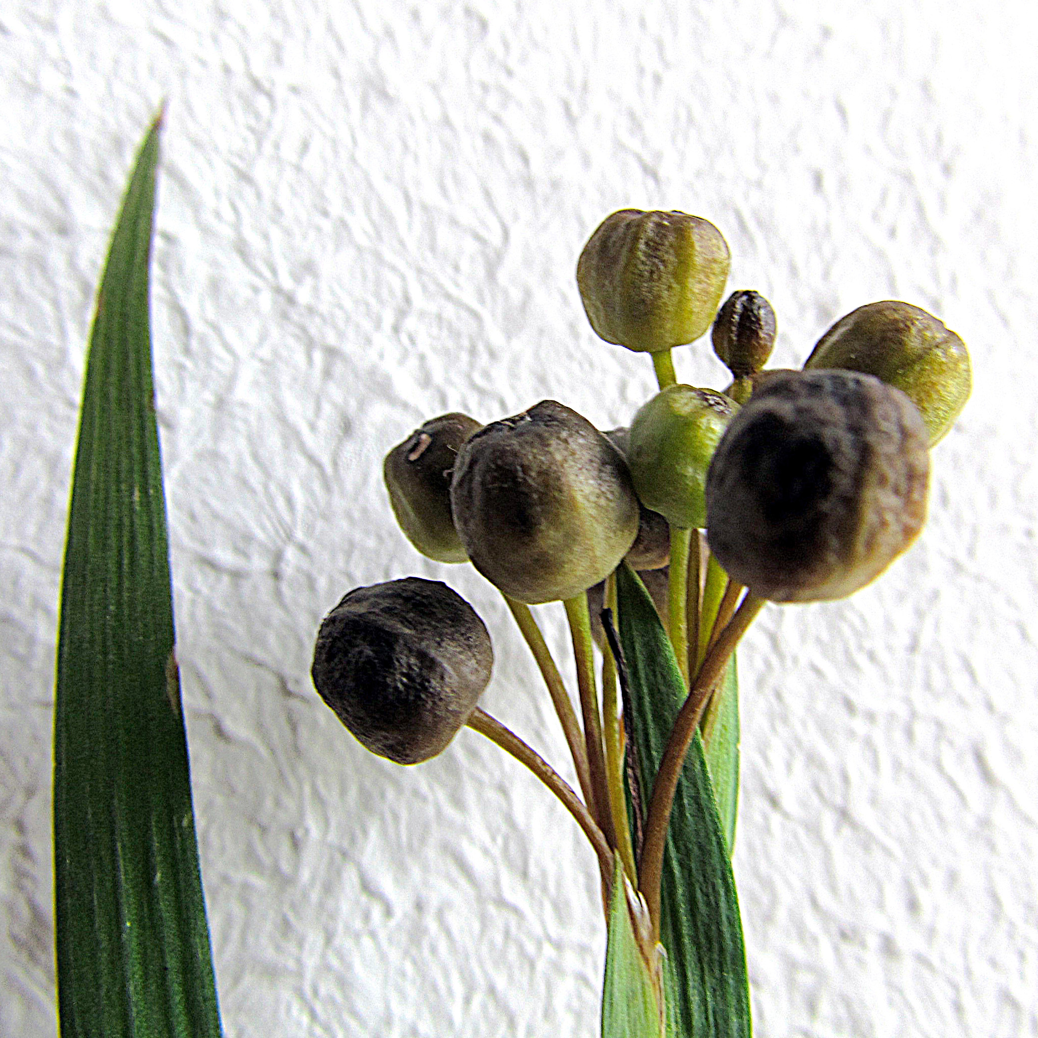 Sisyrinchium angustifolium Mill capsules